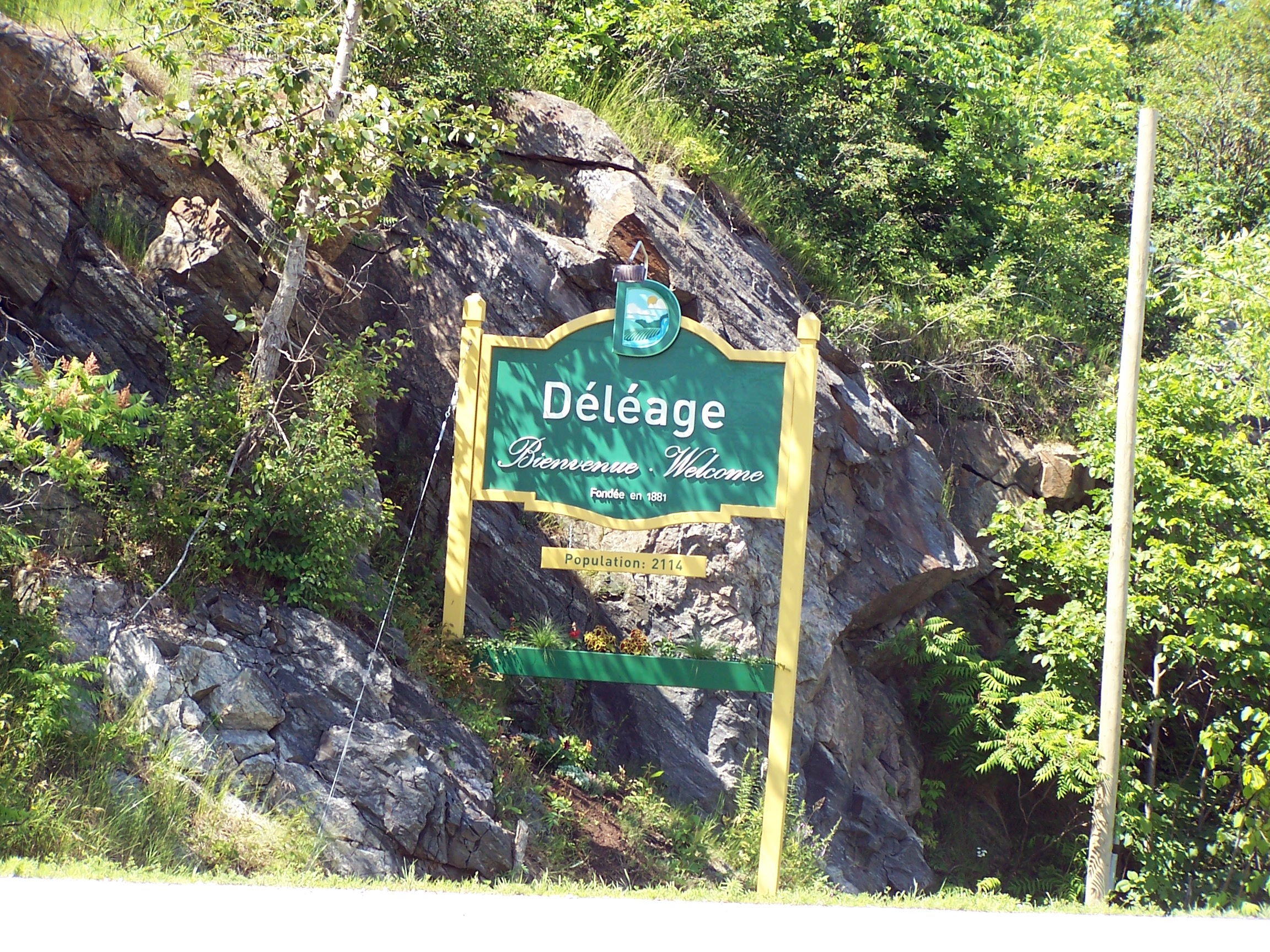 Welcome post at the entrance of Déléage, across the Gatineau River bridge.